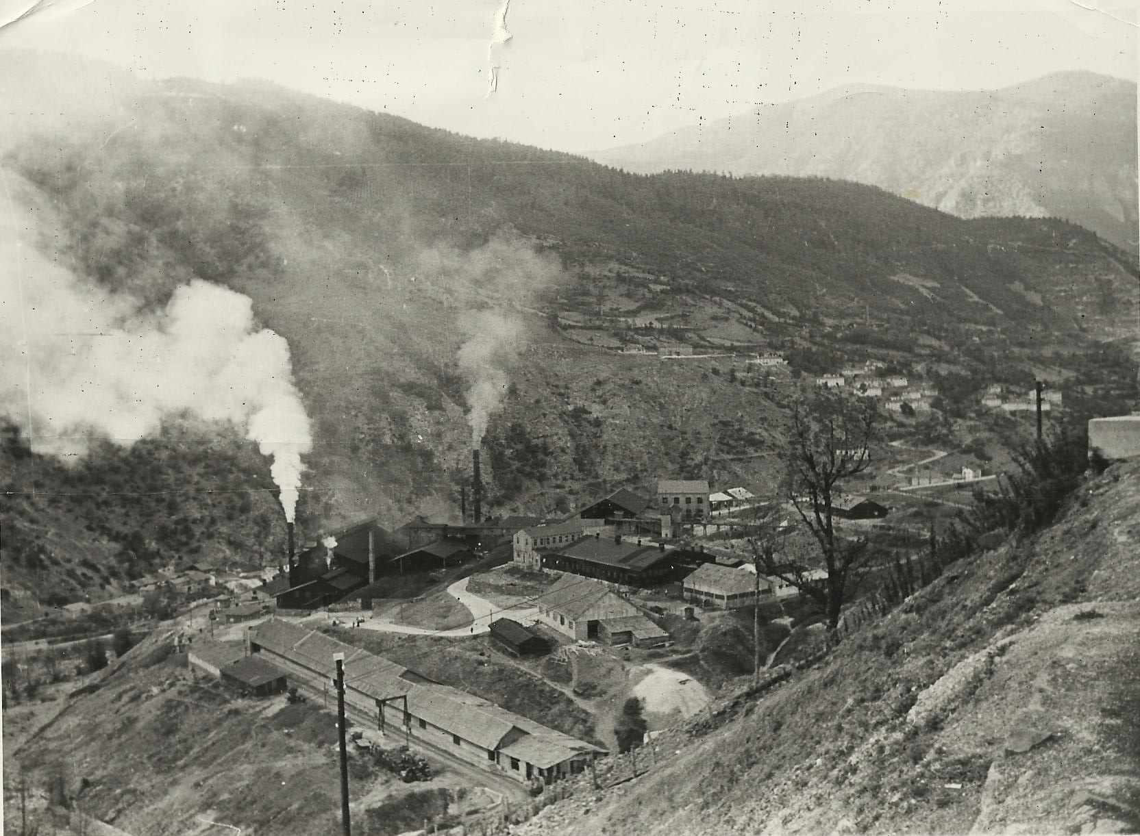 copper plant, Murgul in 1960s, Provence of Artvin (Turkey)